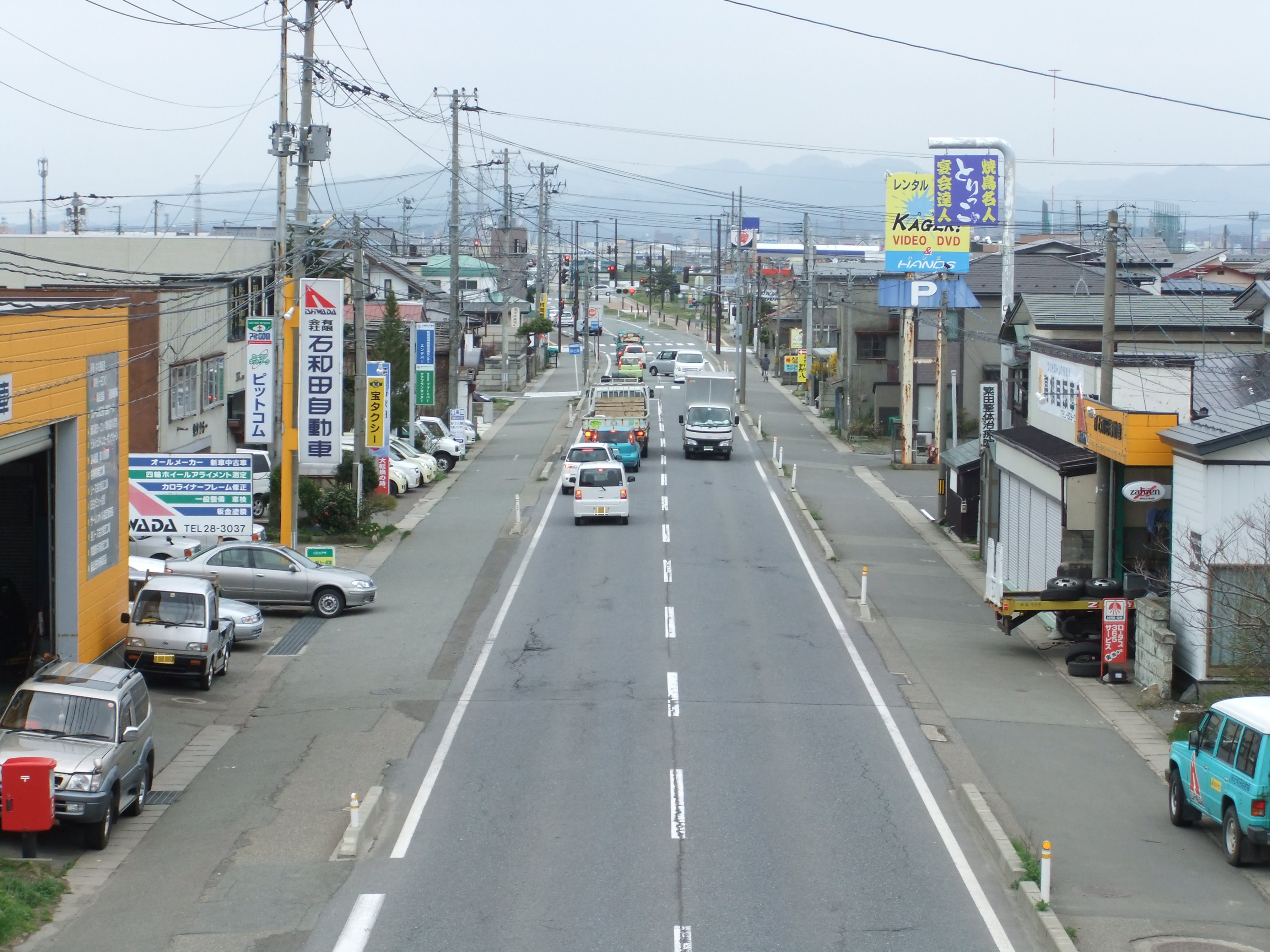 Akita Prefectural Road #56 at Araya-ookawa-mati, for the north.